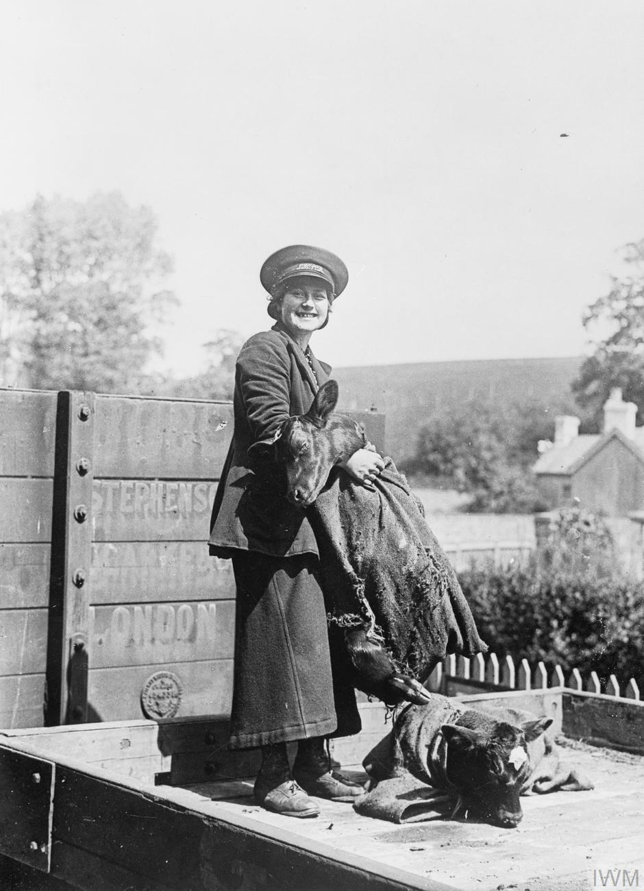 Women in the First World War Industry, Transport and Agriculture: A woman railway porter on the London South East and Chatham Railway. She is standing on an open rail truck with one calf in a sack in her arms and one at her feet.